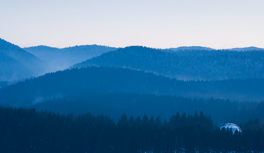 Astrophysical Observatory of Asiago